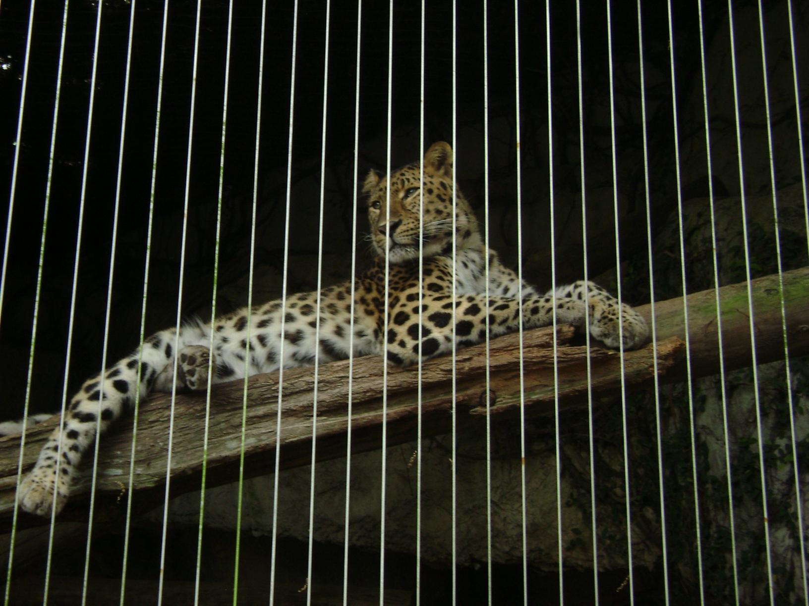 This is a Tiger at the audubon zoo in New Orleans